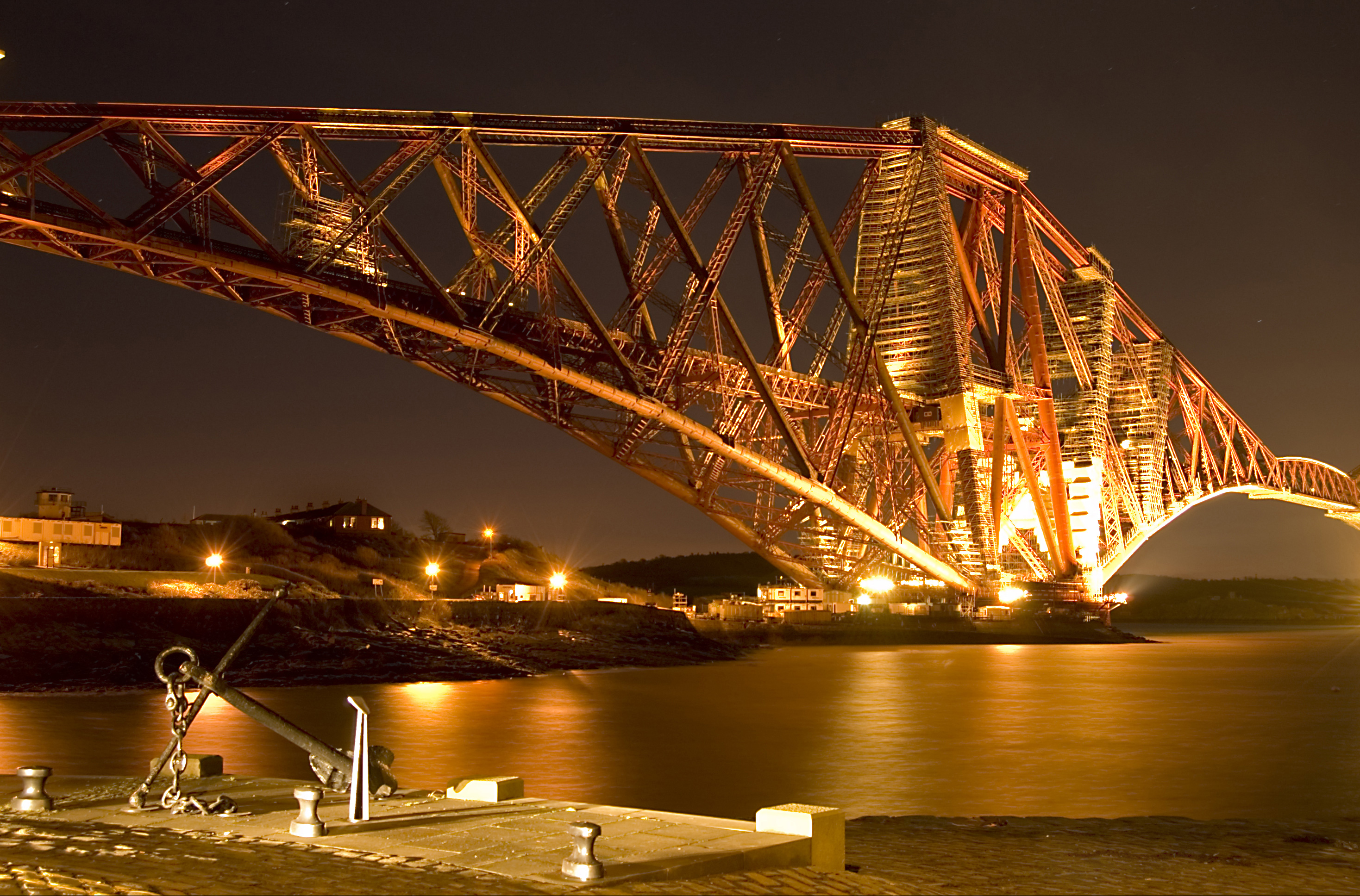 Original image description on Flickr page: Cropped this a bit on the LHS, there was the bridge pillar which origanally just looked squint. Had my car on the LHS full beem on the anchor to give a bit more light